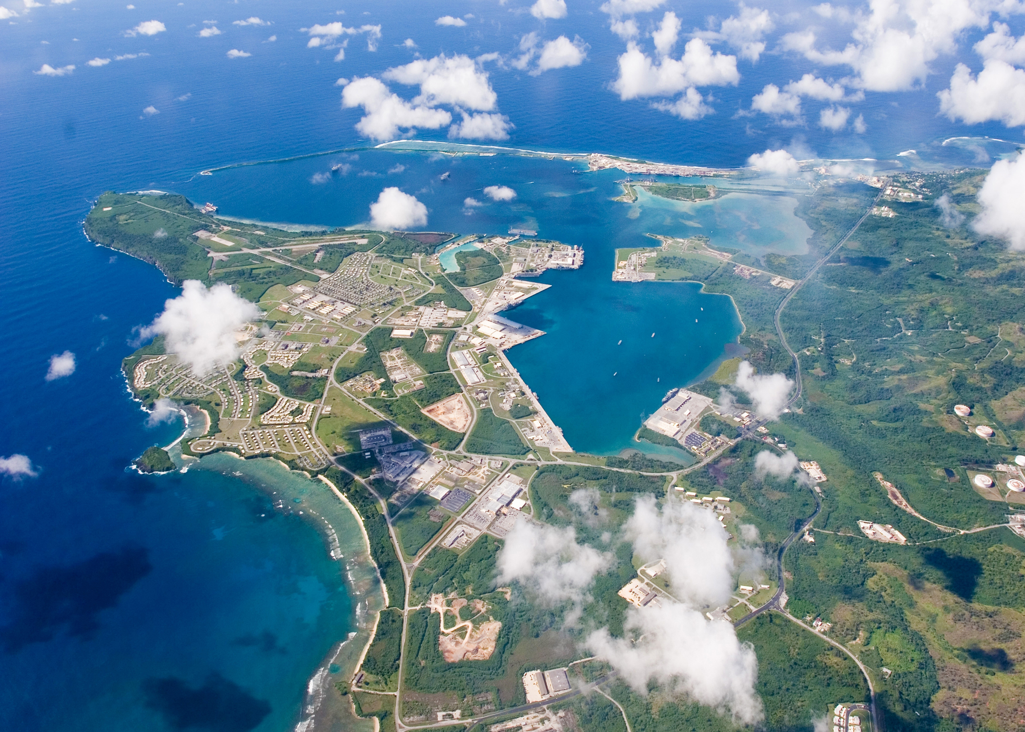 SANTA RITA, Guam (Sept. 20, 2006) An aerial view of U.S. Naval Base Guam Sept. 20, 2006. Naval Base Guam supports the U.S. Pacific Fleet. (U.S. Navy photo/Released)